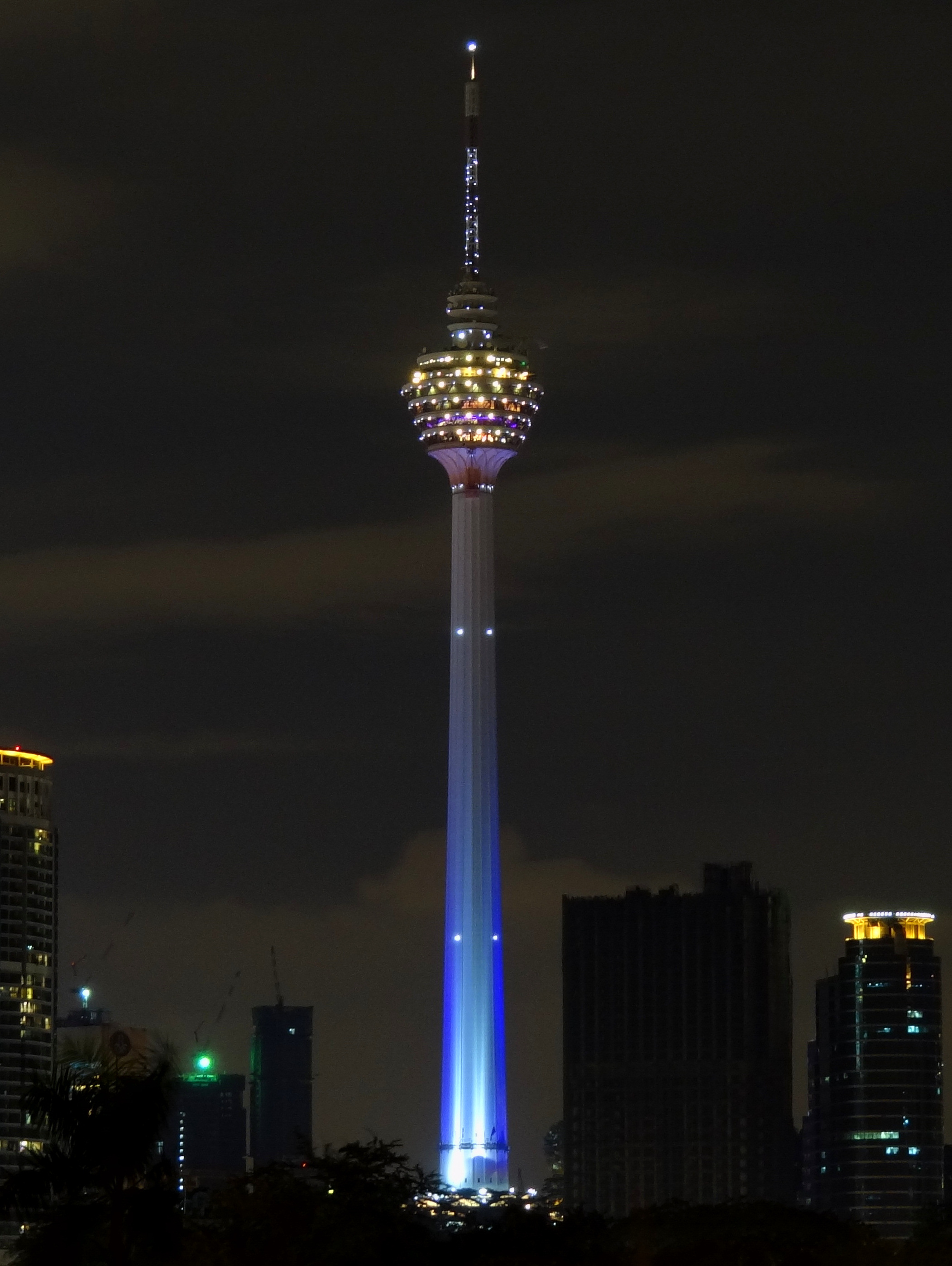 The Menara Kuala Lumpur Tower photographed on New Year's Eve 2011/2012.